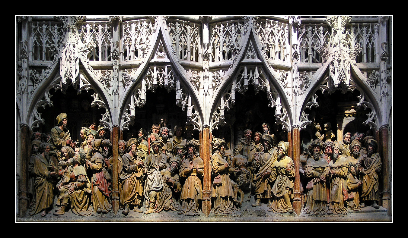 Gothic sculpture - 15eme century - Amiens cathedral, France.